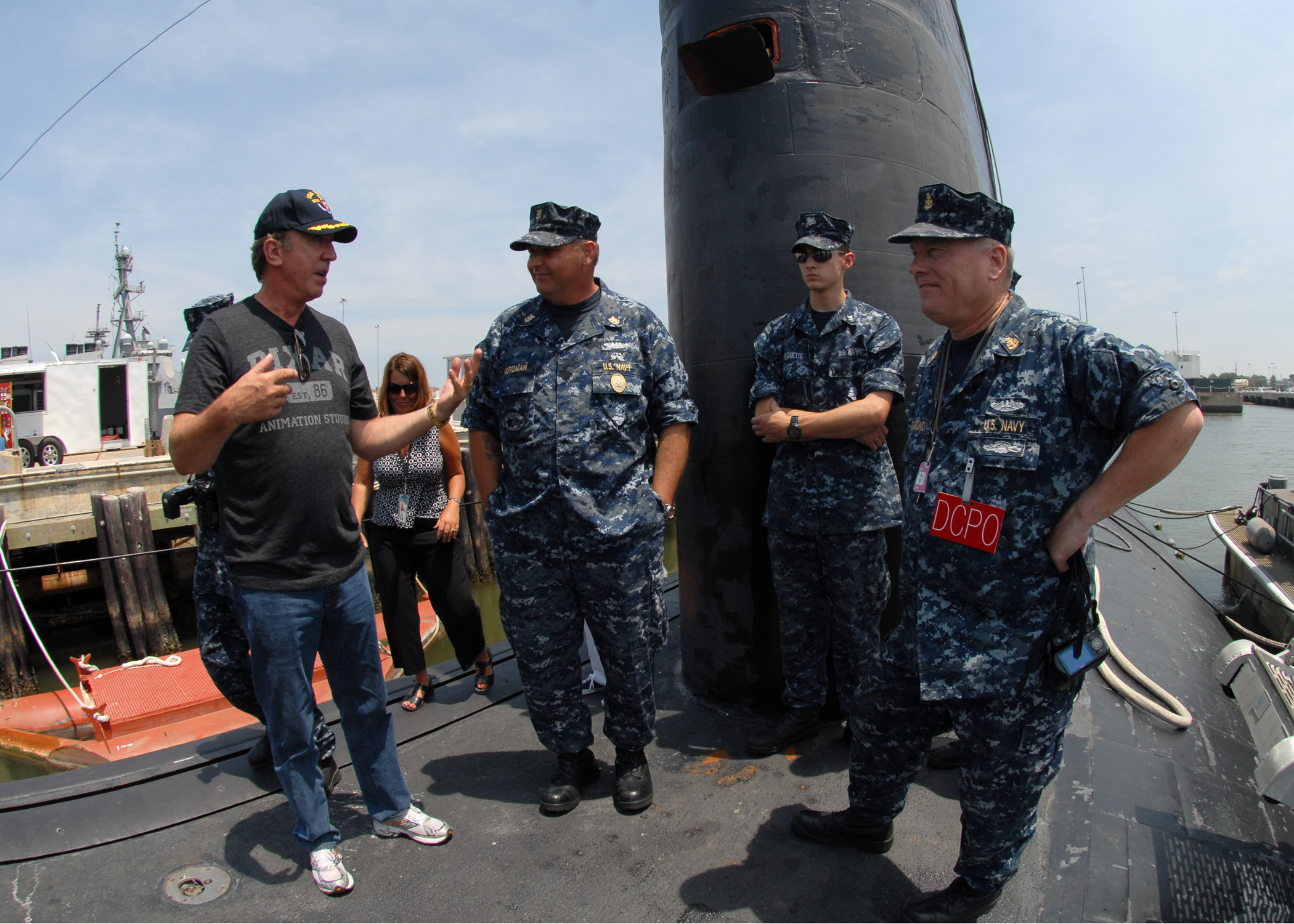 NORFOLK (July 22, 2010) Actor Tim Allen talks with Sailors aboard the Los Angeles-class attack submarine USS Scranton (SSN 756) during a tour of the ship. Allen also toured the guided-missile destroyer USS Stout (DDG 55) during his visit to Naval Station Norfolk. (U.S. Navy photo by Mass Communication Specialist 1st class Todd A. Schaffer/Released)